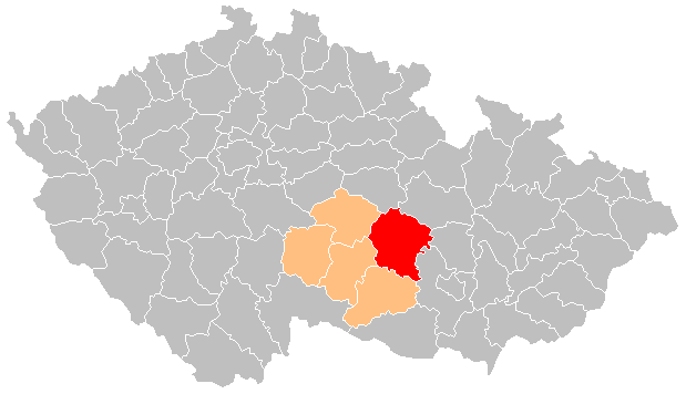 District of Žďár nad Sázavou